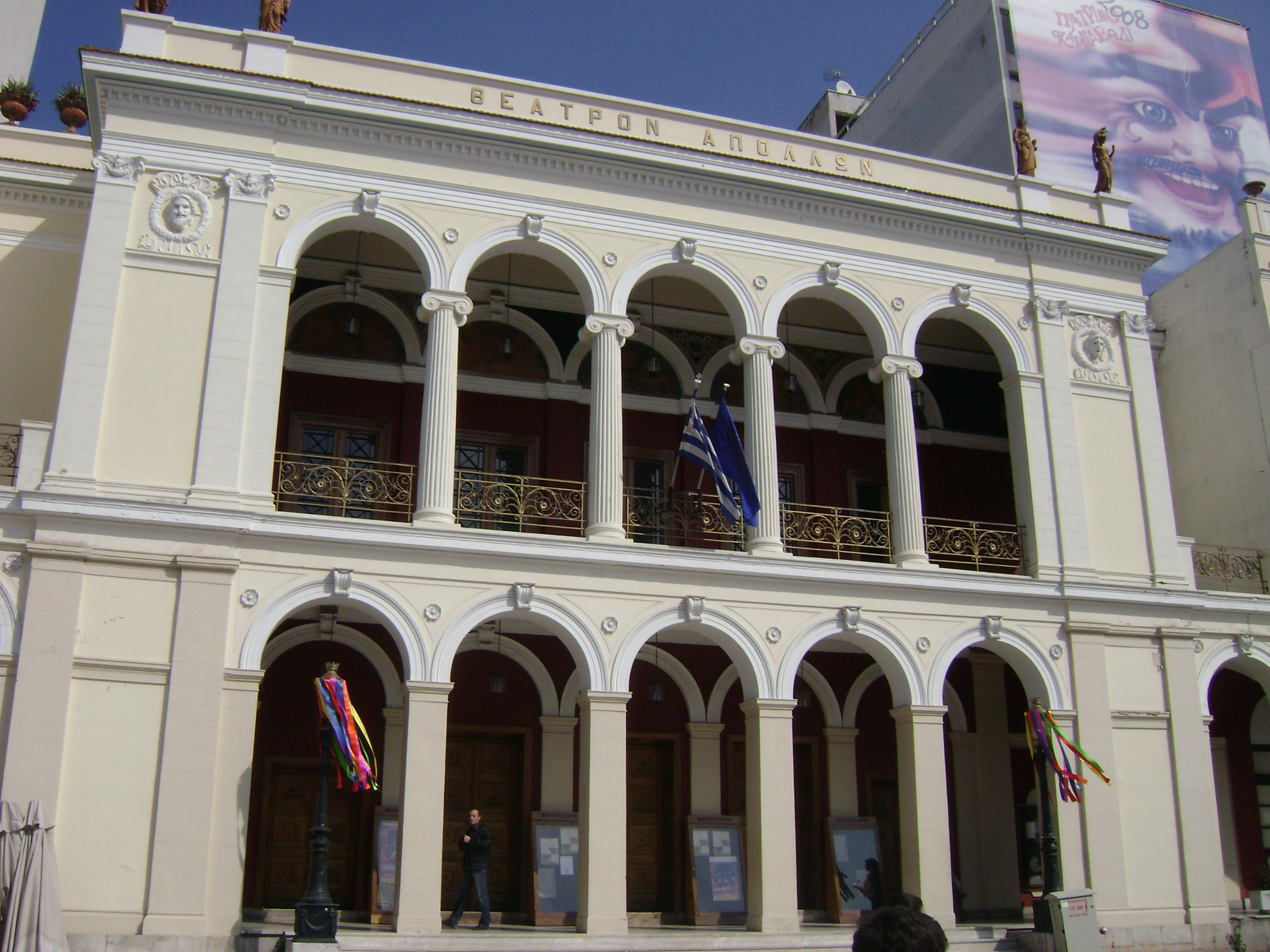 Apollon theatre in King Yeorghios Square in Patra.